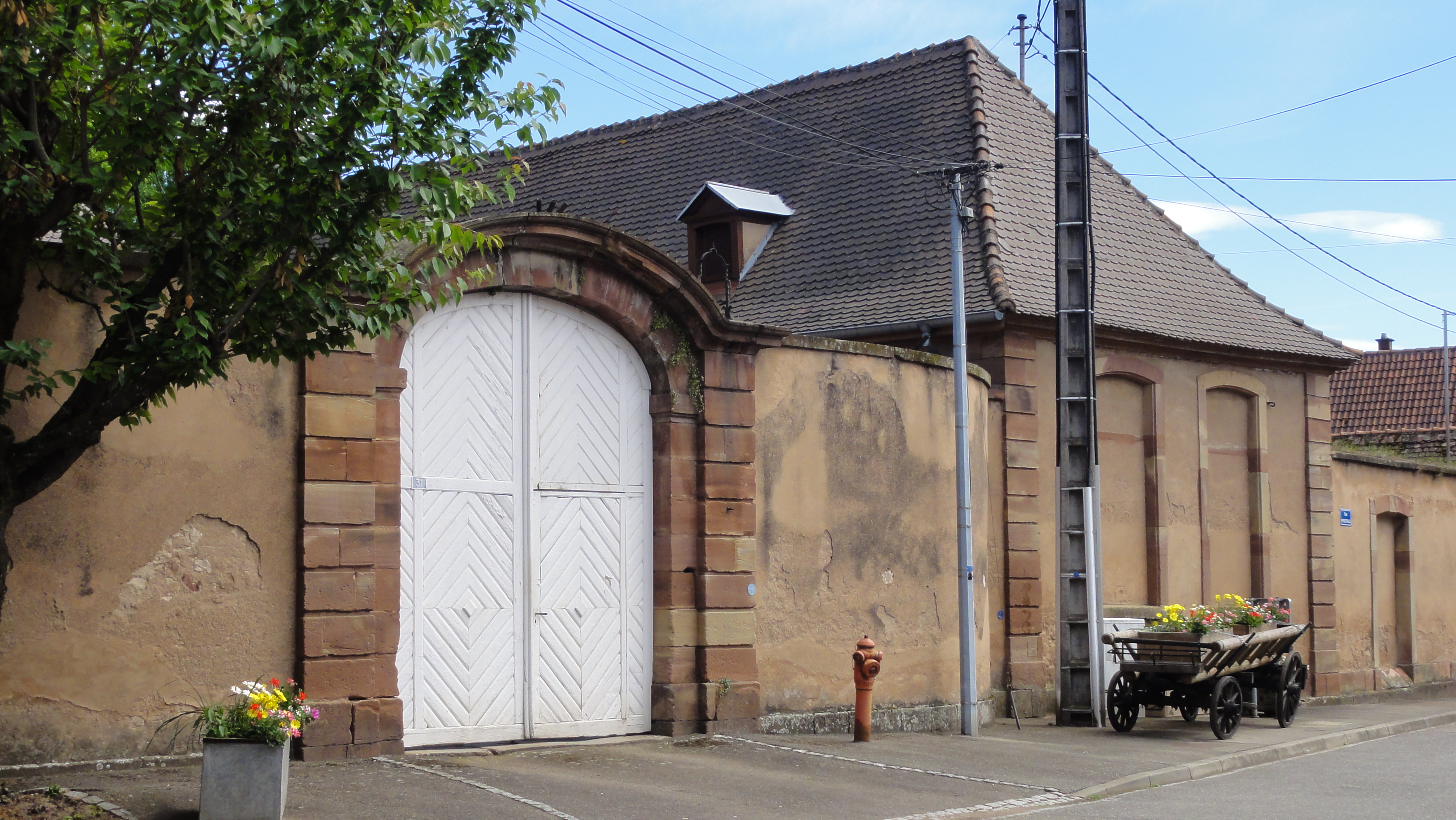 Alsace, Bas-Rhin, Dachstein, Château Hervé ou Bourcart (1750), 31 rue Principale. It is indexed in the Base Mérimée, a database of architectural heritage maintained by the French Ministry of Culture, under the references PA00084667 and IA67011135 .